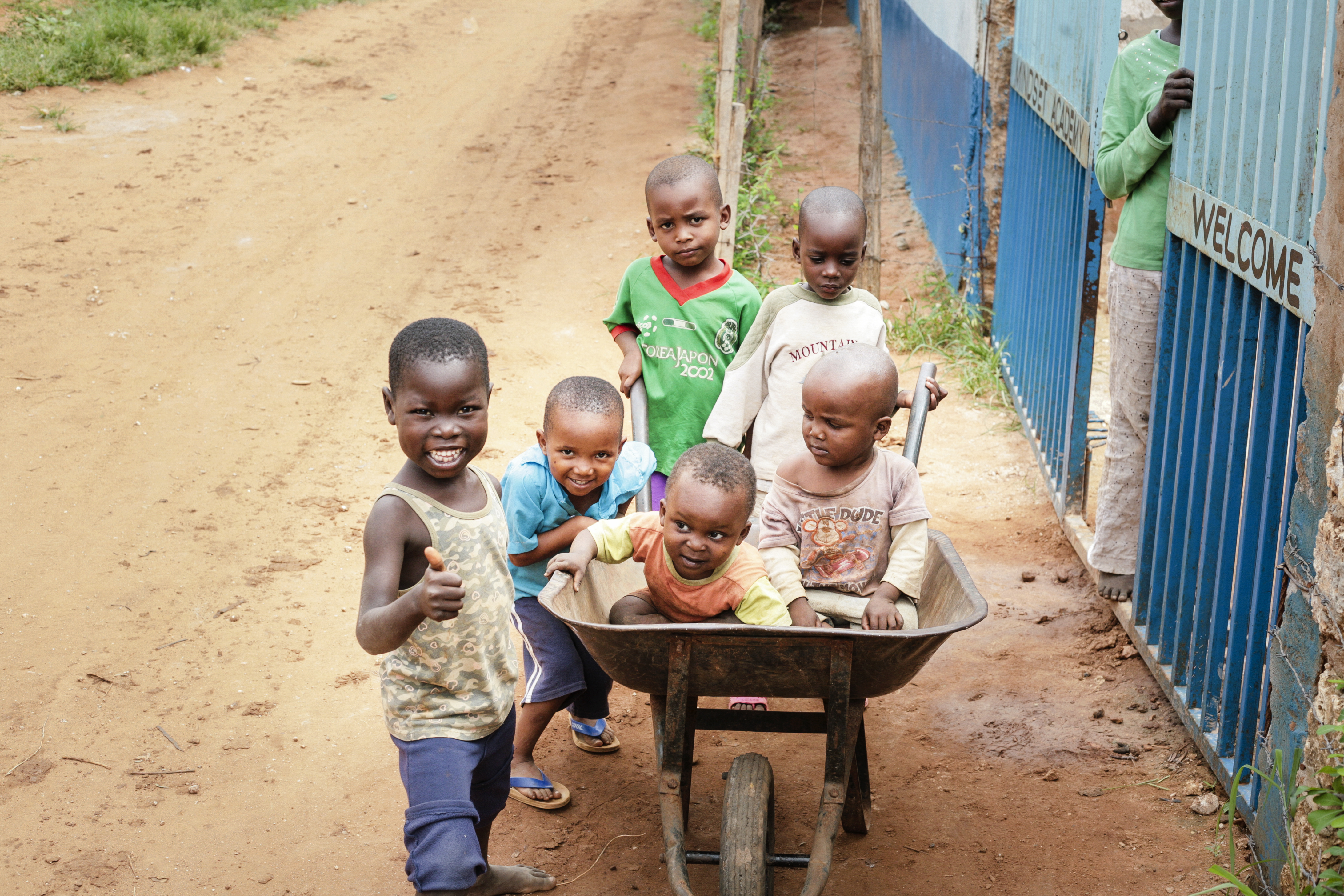 Many countries use a wheelbarrow for carrying contraction materials though in many parts of African its used to carry children from one place to another because mothers have more than 3 children and they can’t carry them at once so they use wheelbarrow to simplify their movements. This is an image with the theme "Africa on the Move or Transport" from: Kenya